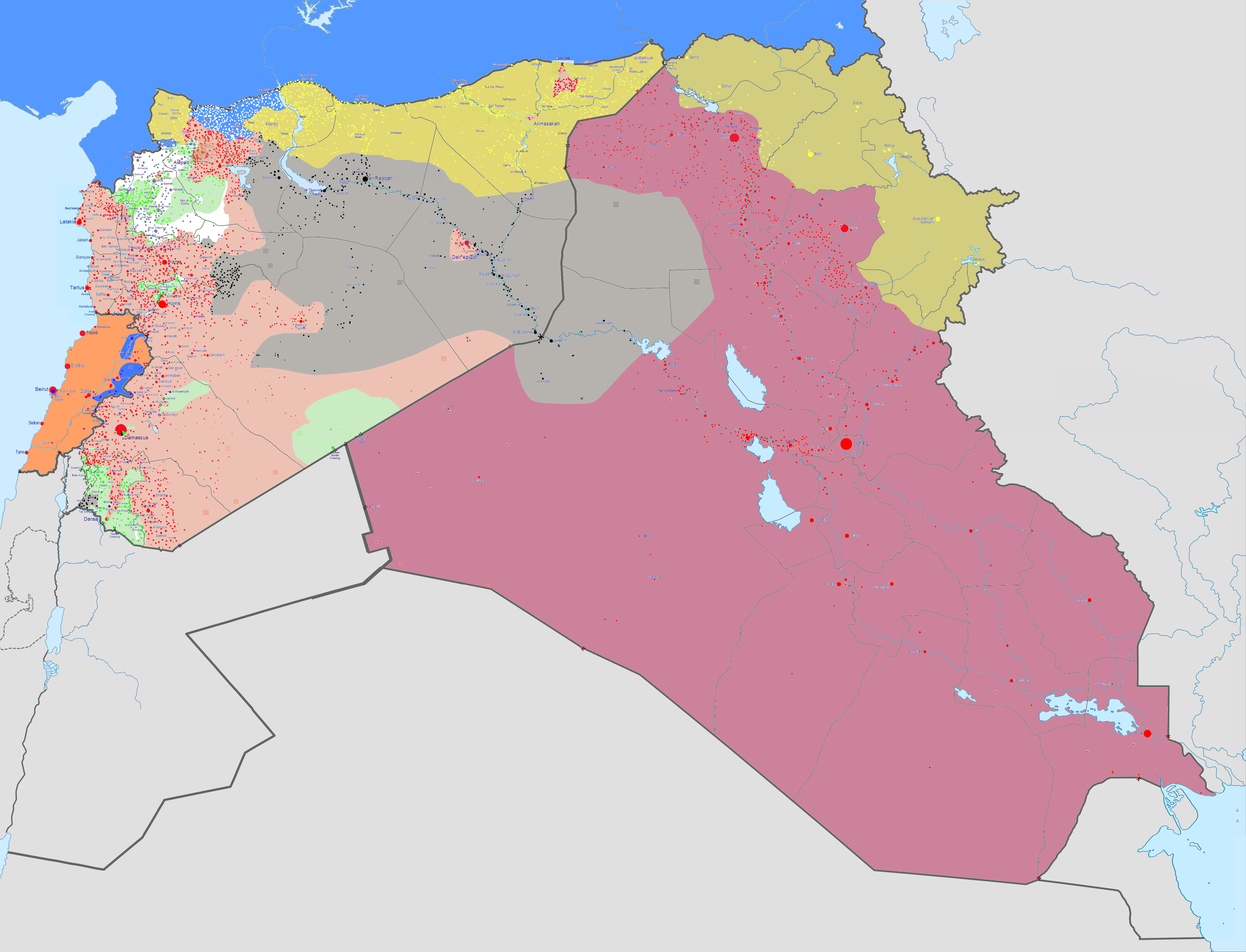 The average territorial frontlines of the Syrian, Iraqi, and Lebanese conflicts in 2017. Some of these may be anachronistic.